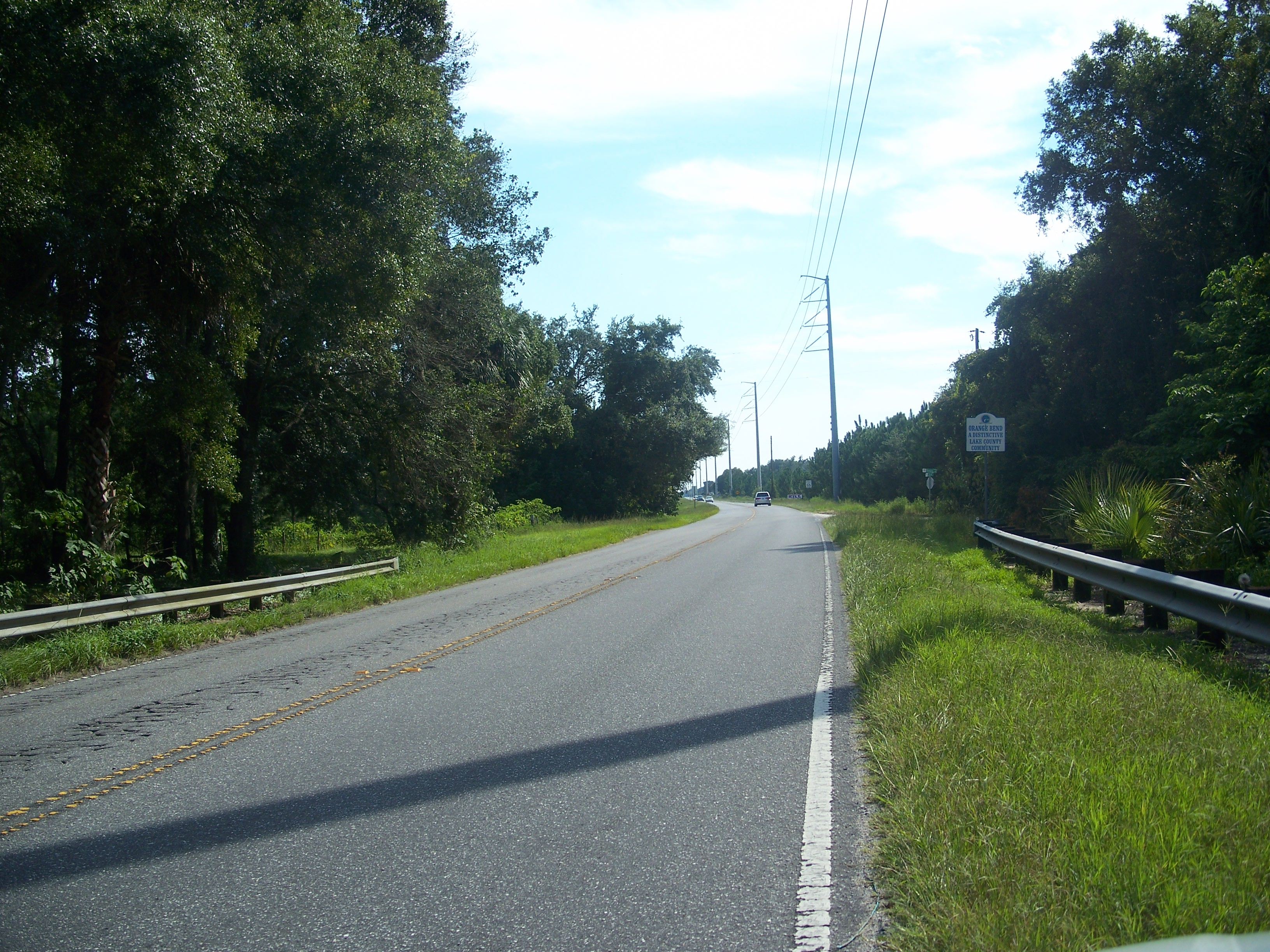 Orange Bend, Florida: On Lake County Road 44, looking south into it.